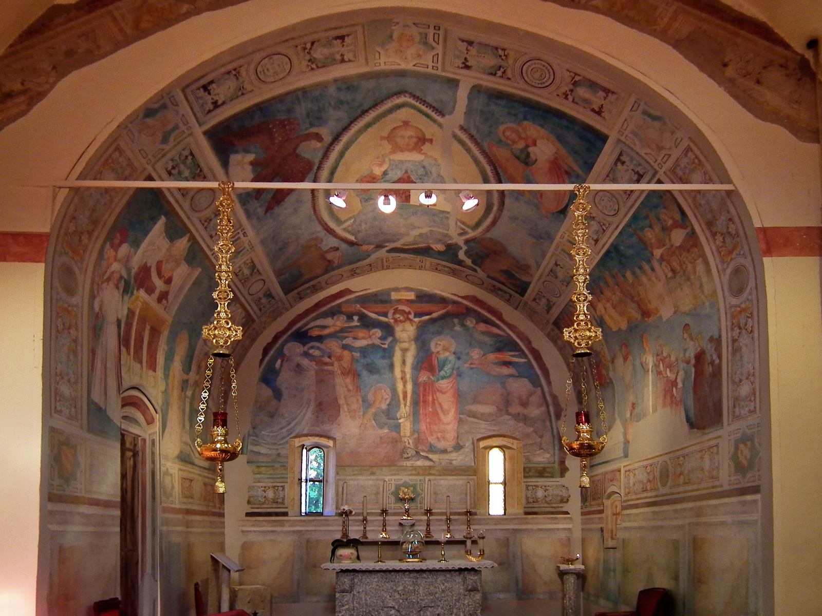 The reproduction of the frescoes now housed in Brera museum in Milan. Oratorio di Mocchirolo Native nameOratorio di MocchiroloLocationLentate sul Seveso, Lombardy, ItalyCoordinates45° 40′ 40.24″ N, 9° 07′ 55.67″ E